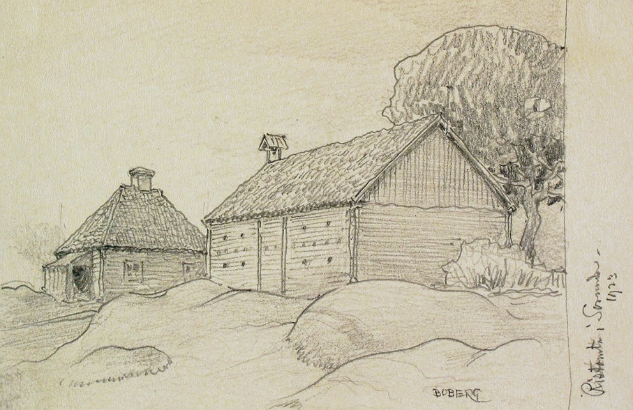 Ristomta gård as drawn by famous swedish architect Ferdinand Boberg